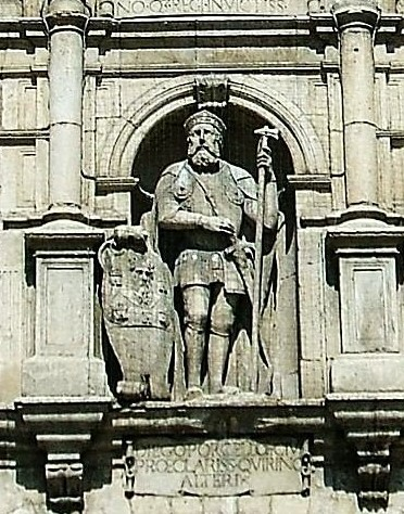 Diego Rodríguez Porcelos Reconquista count of Castile